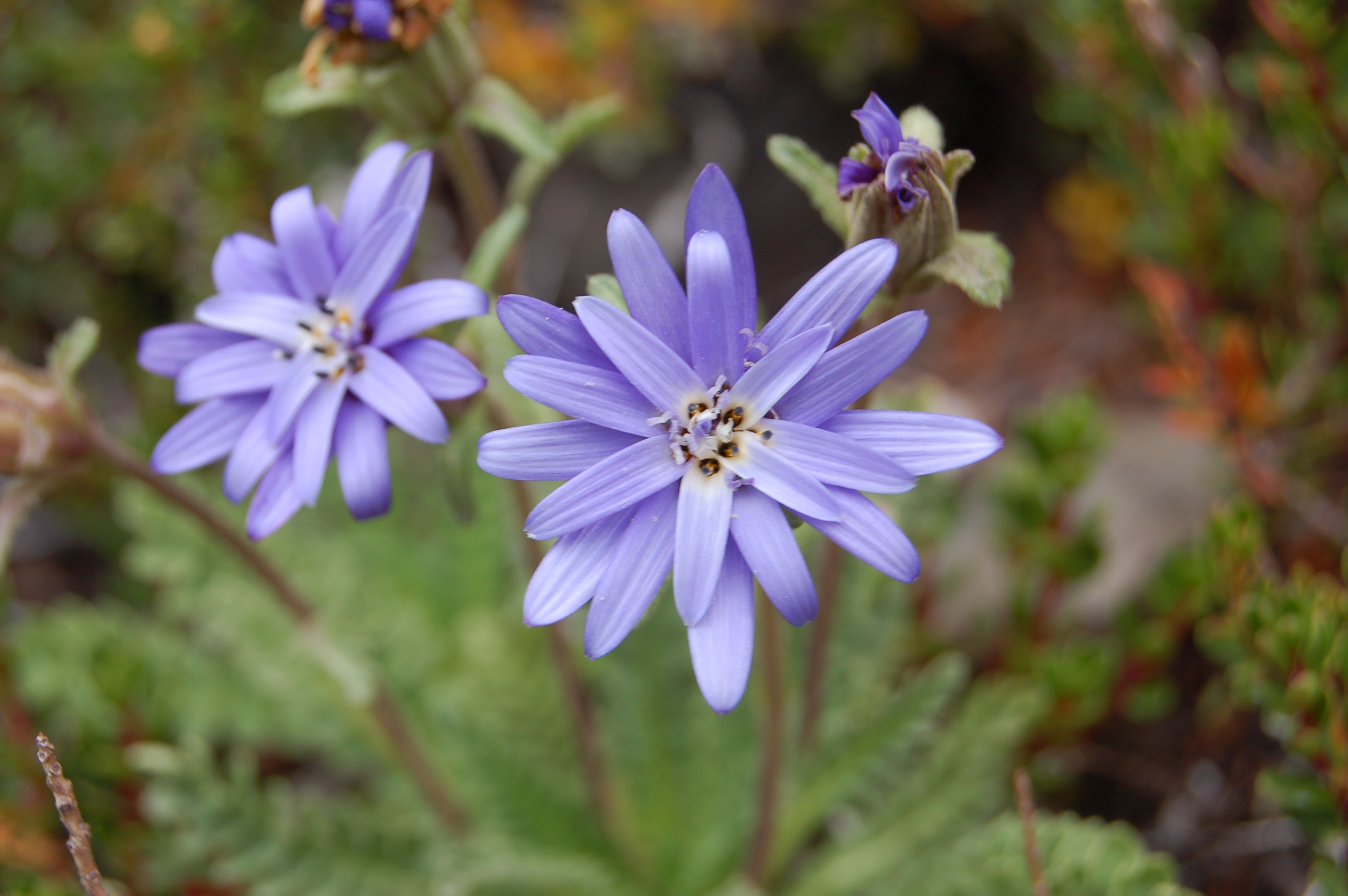 Flower Perezia pedicularifolia from the Asteraceae family also know as Star of the Andes